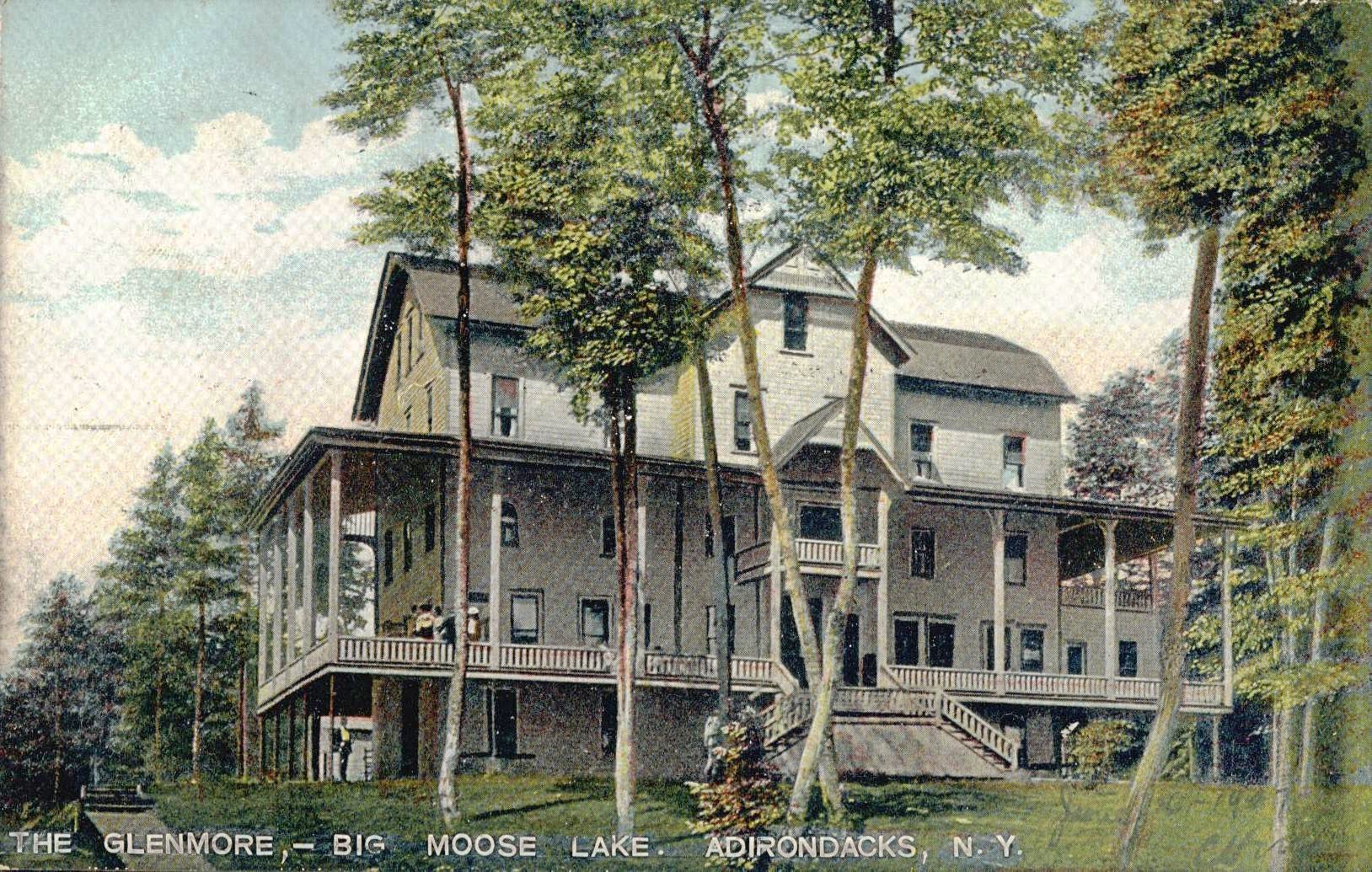 The Glenmore, Big Moose Lake, Adirondacks, Ny